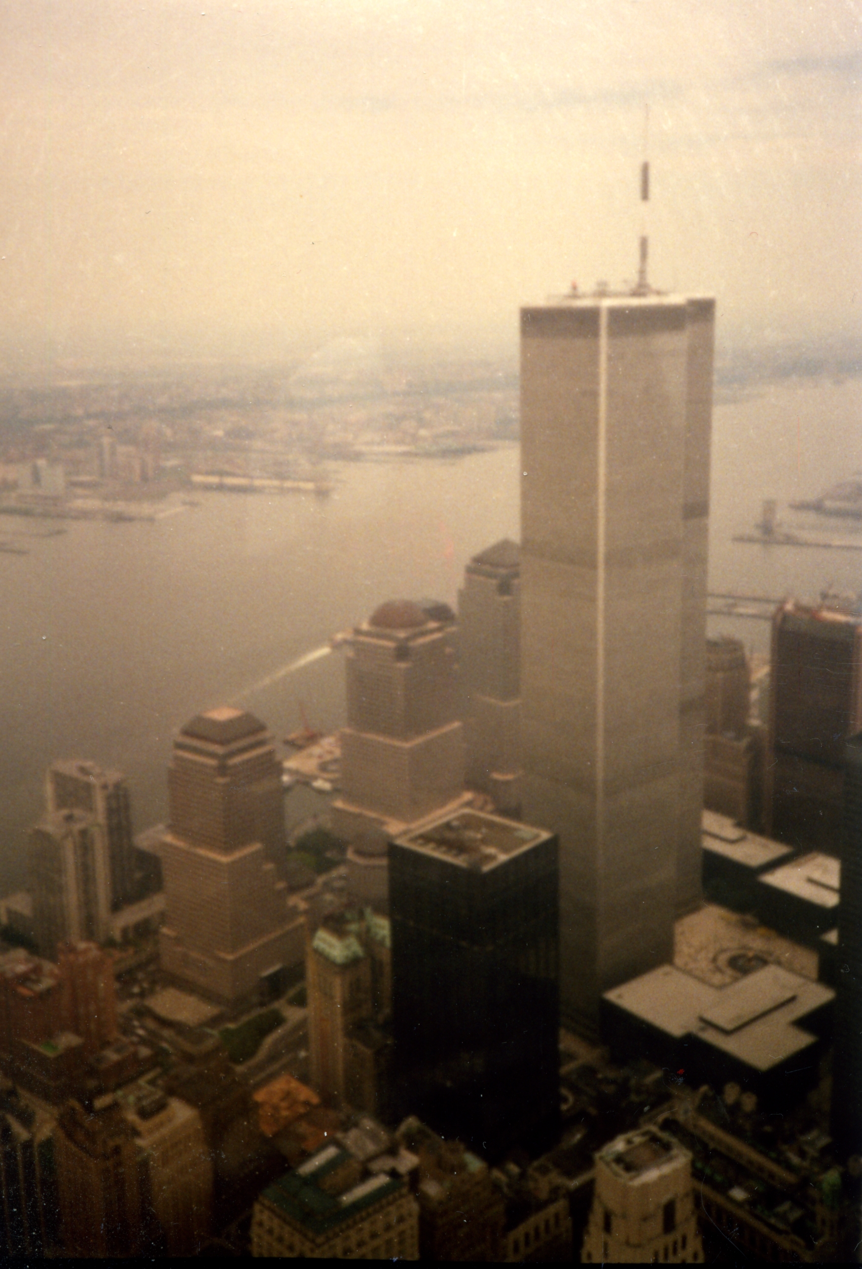 the twin towers of the World Trade Center in New York City